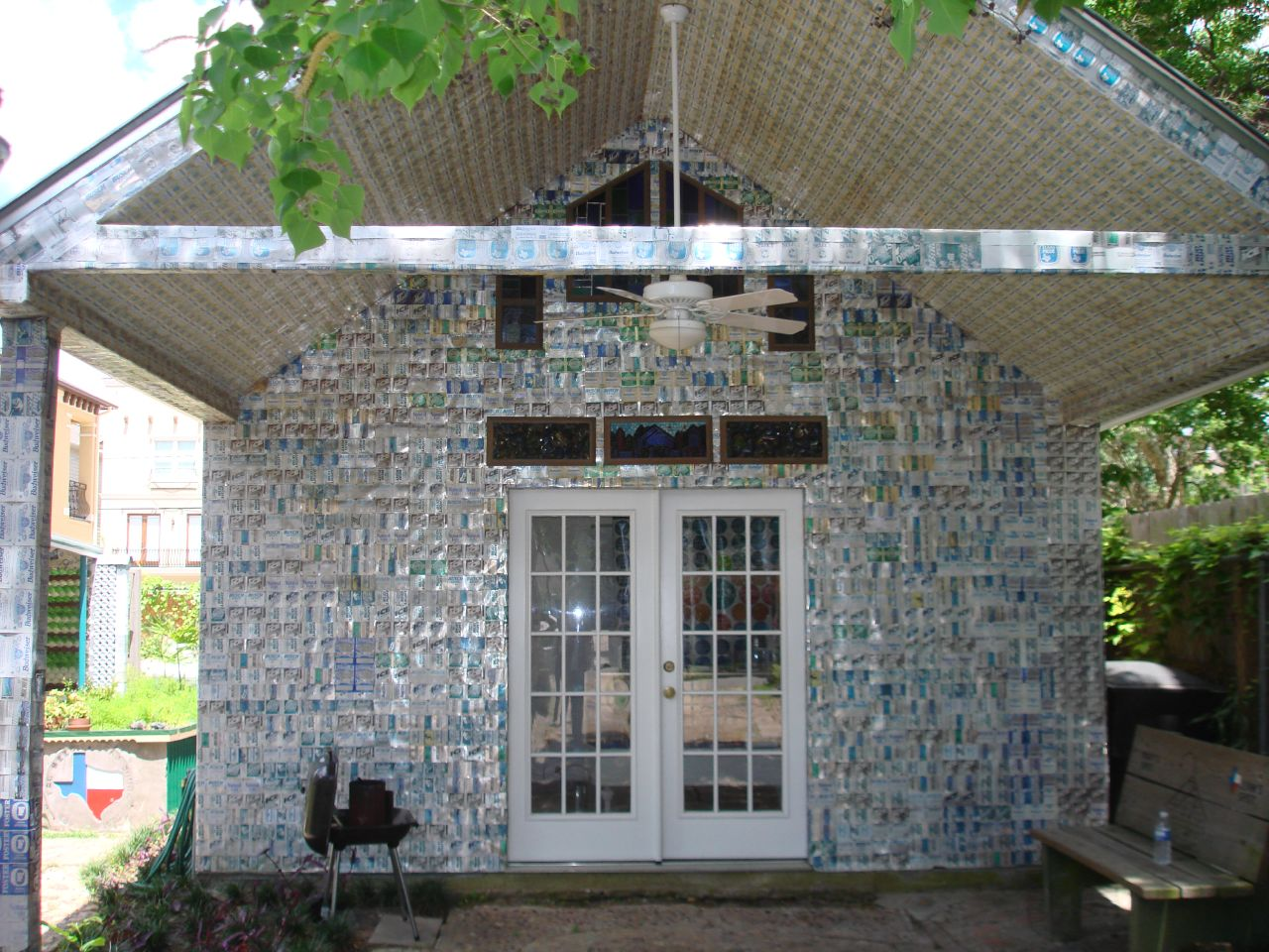 A shed at the Beer Can House in Houston, Texas, showing the beer cans nailed to the building.